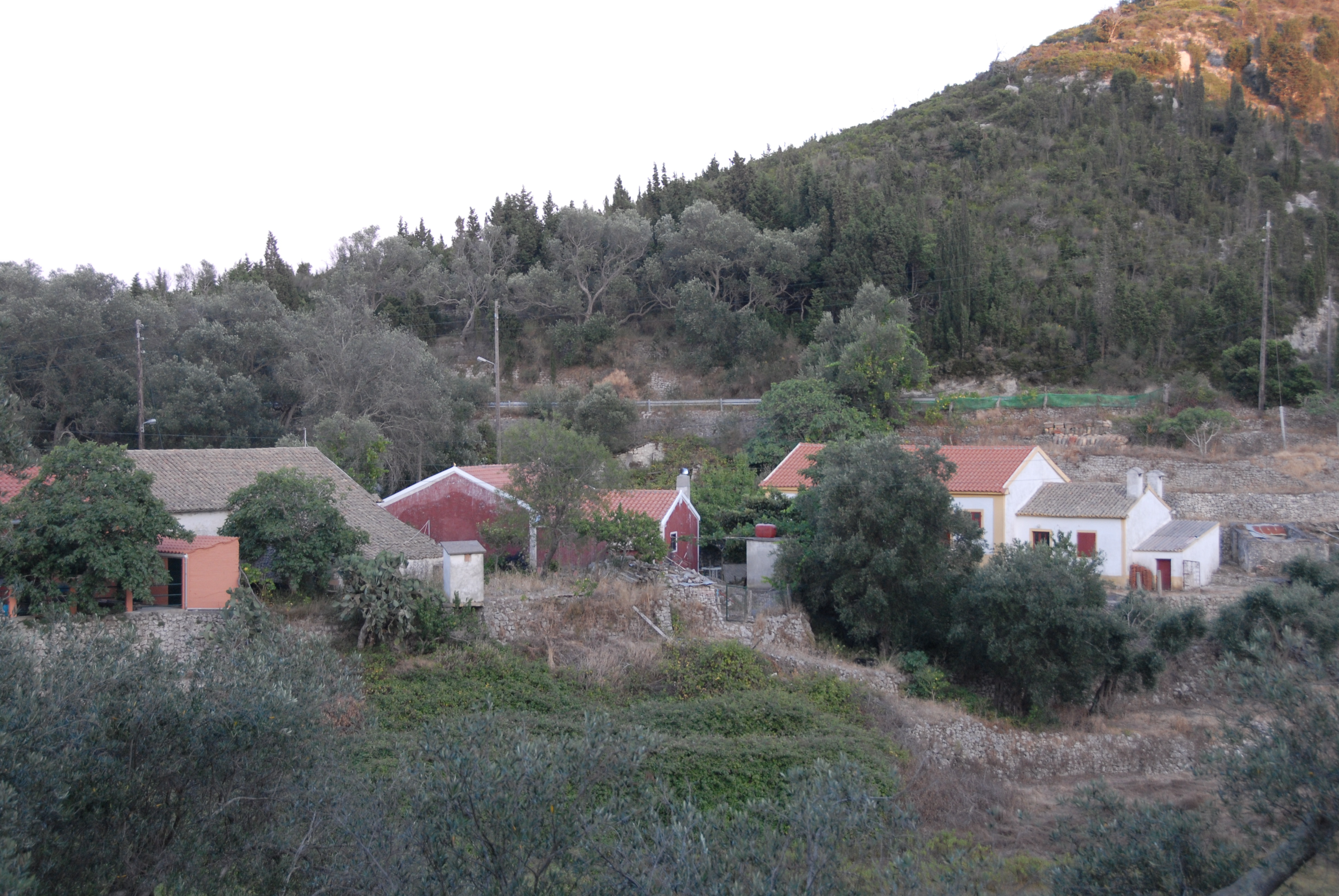 Dafni, Othoni island, Hellas